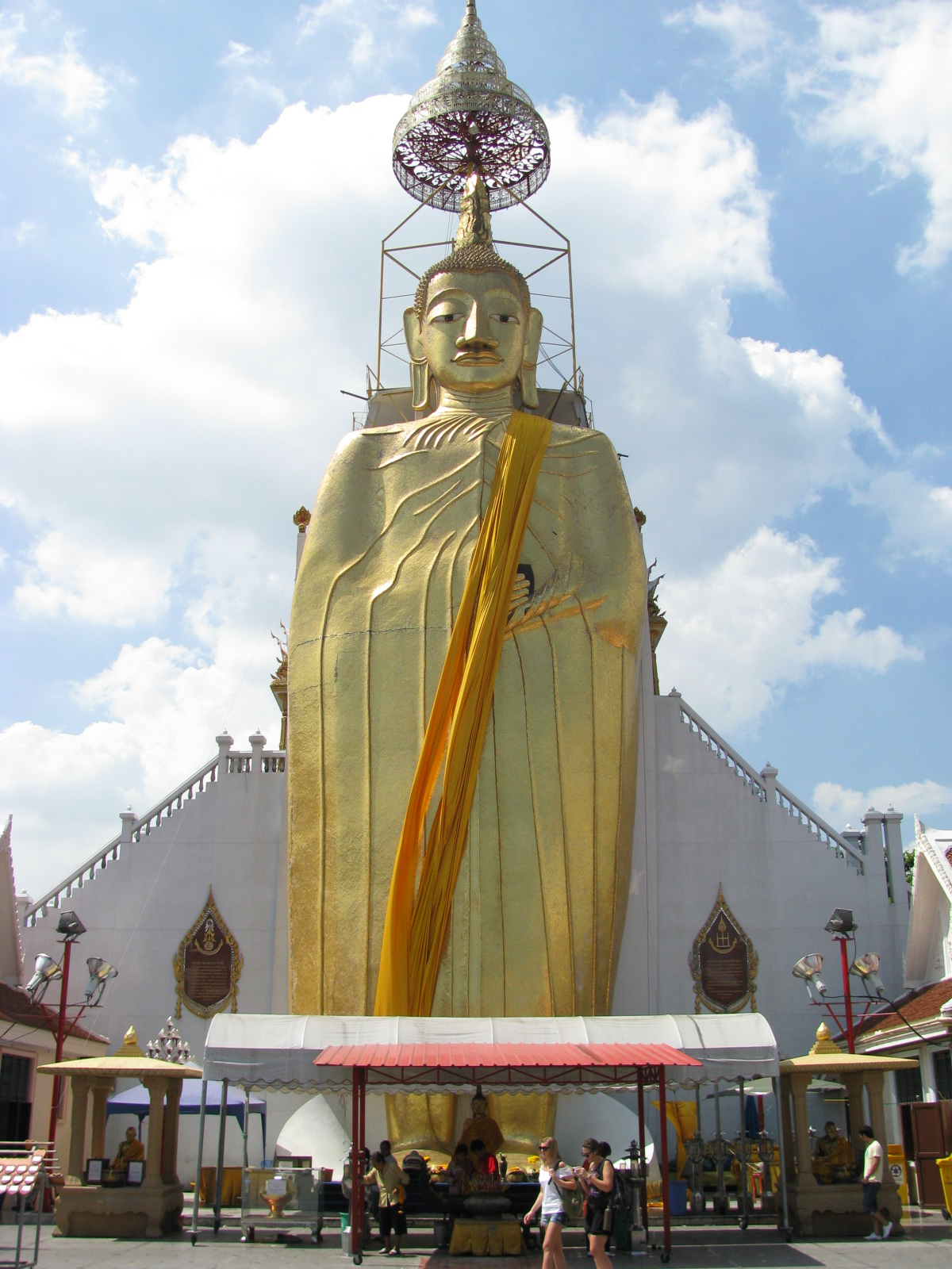 Great buddha of Wat Intharawihan located in Khet Phra Nakhon, Bangkok, Thailand.